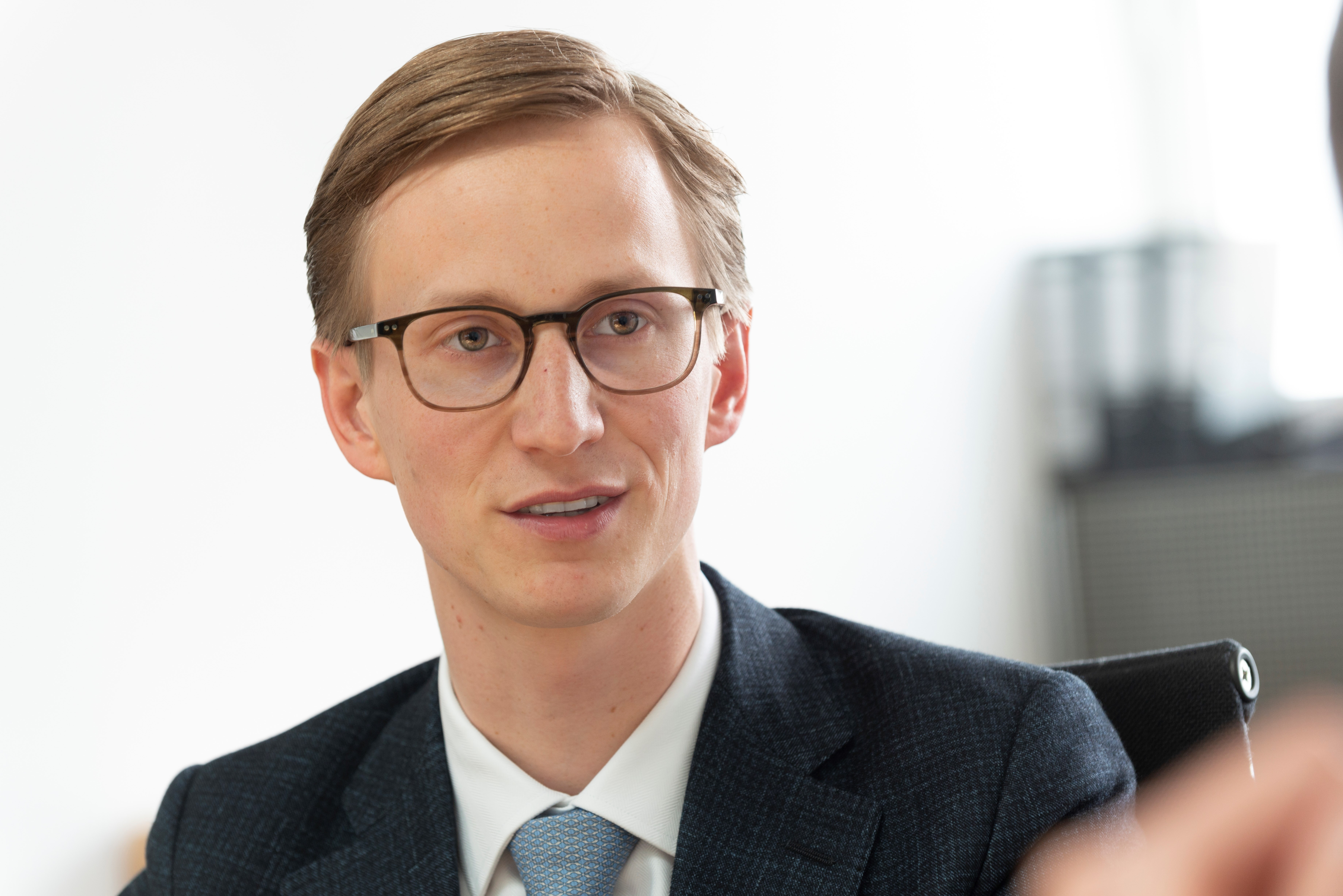 Portrait of Marc Fielmann, Chief Executive Officer of Fielmann AG, Hamburg